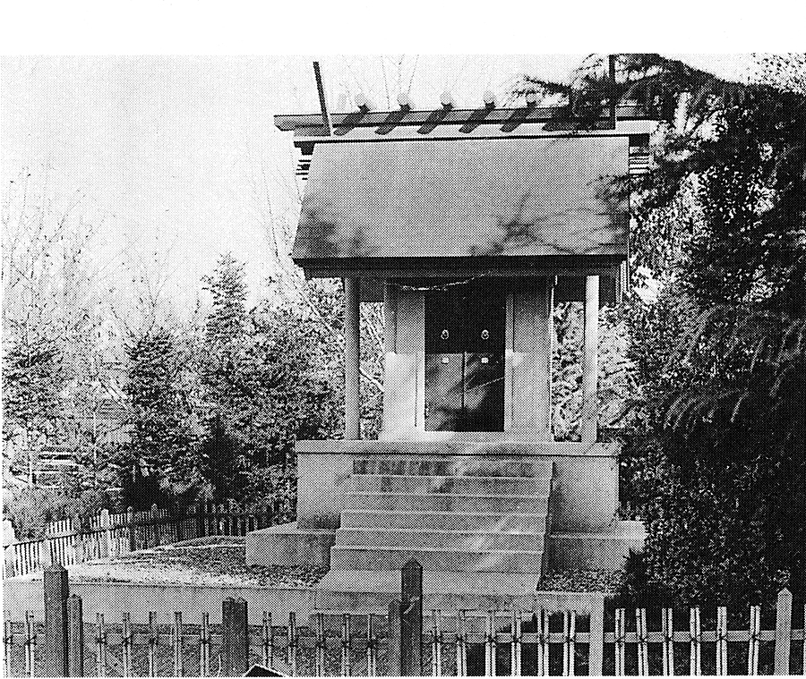 Hō-an-den(奉安殿) in Chonnam Girls' High School(전남여고), Gwangju, Korea(under Japanese rule), 1938